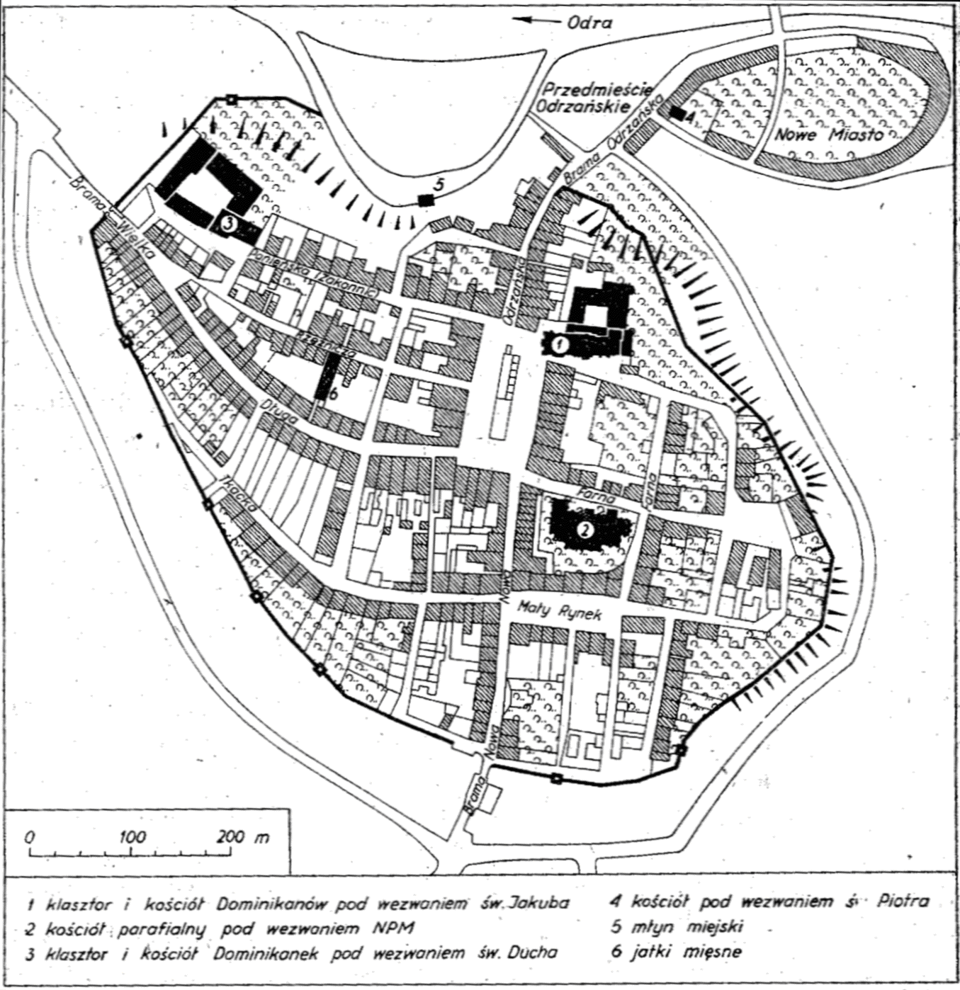 Racibórz city plan of the year 1567